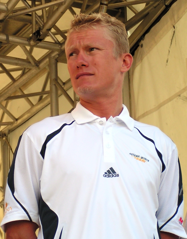 The Kazakh racing cyclist Alexander Vinokourov at the team presentation for the Deutschland Tour 2006 in Düsseldorf, Germany.